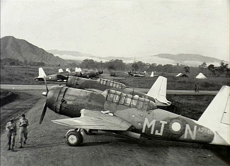 Nadzab, New Guinea. c. 1944-02. Line up of Vultee Vengeance dive bomber aircraft of No. 21 Squadron RAAF in the dispersal area of Nadzab. In the foreground is aircraft coded MJ-N, serial no. A27-60.